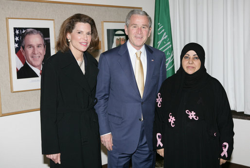 U.S. Ambassador of Protocol Nancy Brinker and President George W. Bush stand with Dr. Samia Al-Amoudi, a breast cancer survivor, after a roundtable discussion with Saudi entrepreneurs Tuesday, Jan. 15, 2008, during the President's visit to Riyadh. White House photo by Chris Greenberg